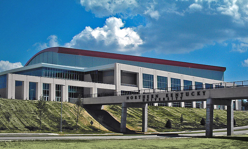 Northern Kentucky University's arena Bank of Kentuky Center basketball arena and trade show hall (future use), plus skywalk signage over Nunn Drive.